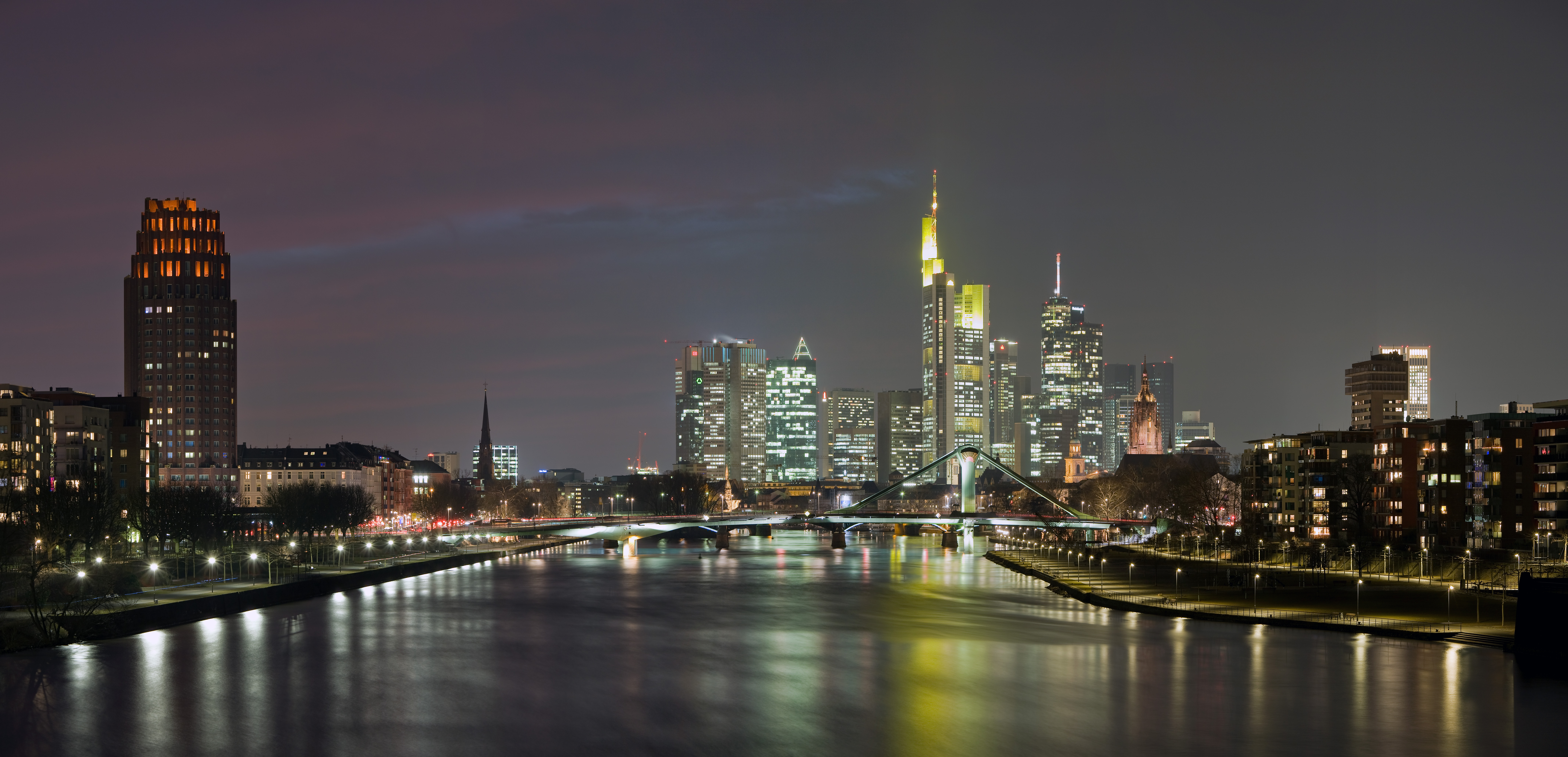 Frankfurt on the Main: Panorama of the city as seen from the Deutschherrnbruecke (Teutonic Knights Bridge) in the early evening